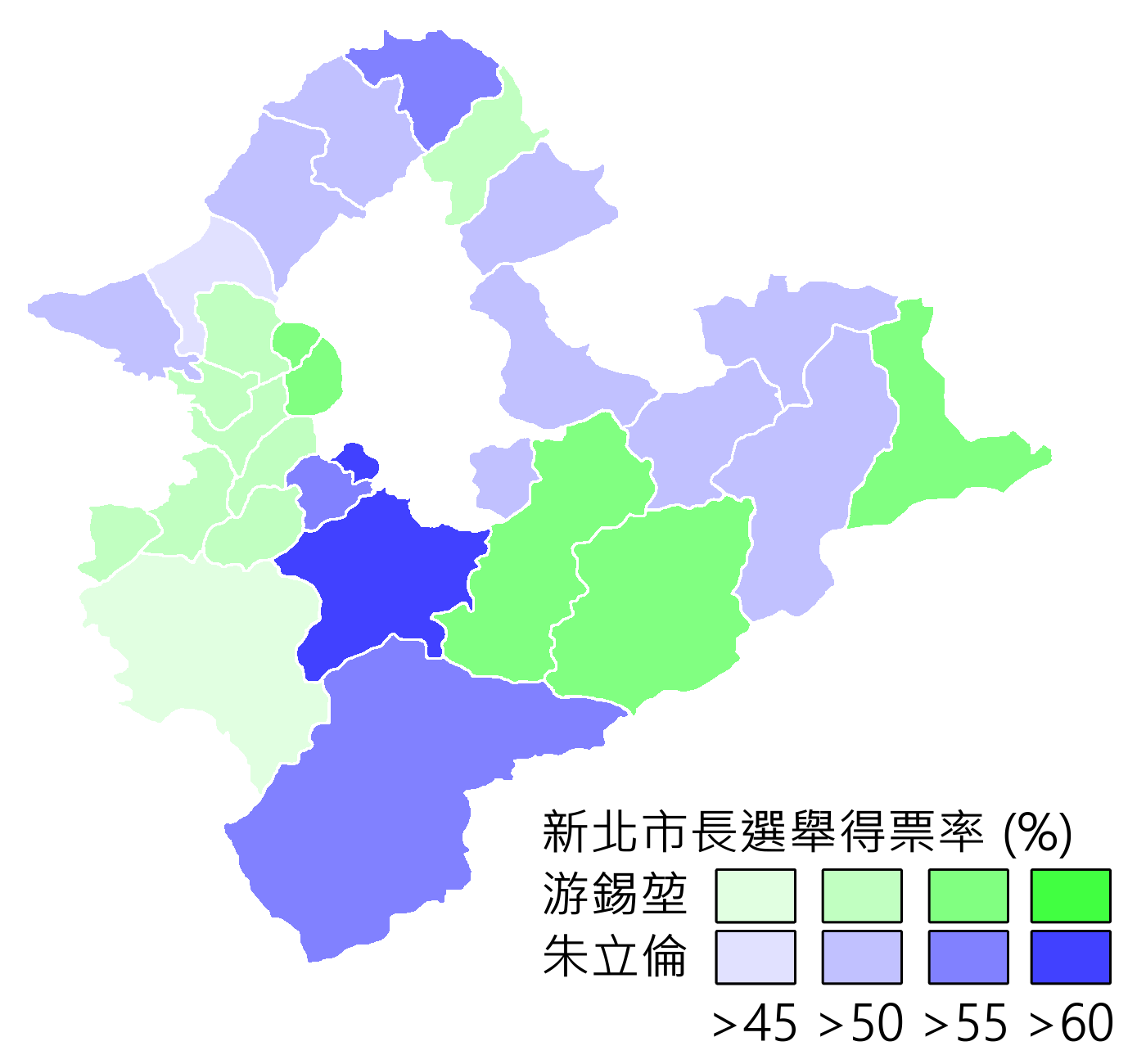 2014 New Taiper magistrate election